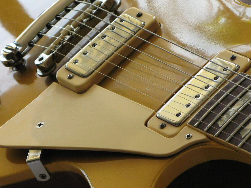 1972 Gibson Les Paul Deluxe Note the original Nylon bridge saddles. And original screws: Four round-head Standard for the pickups, and three different Philips types for the pickguard (large flat-head beveled, smaller flat-head beveled, and an oval-head that's slightly larger than the screws used for the cover plates).